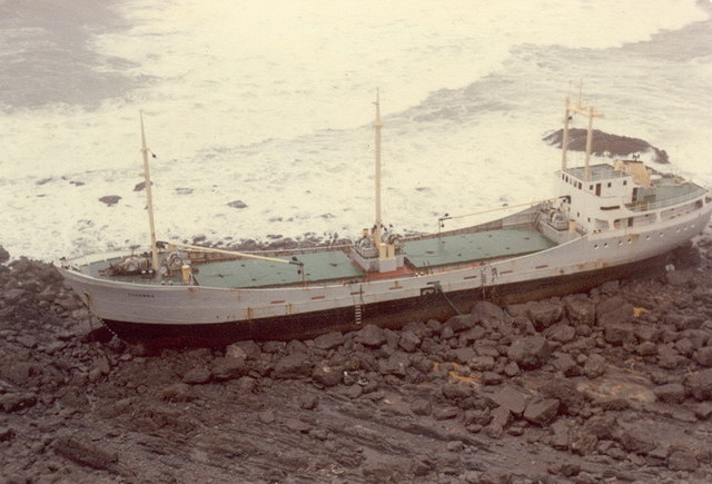 The MV Johanna January 1983 The Johanna as she was wrecked in Jan 1983 before nature took its toll.